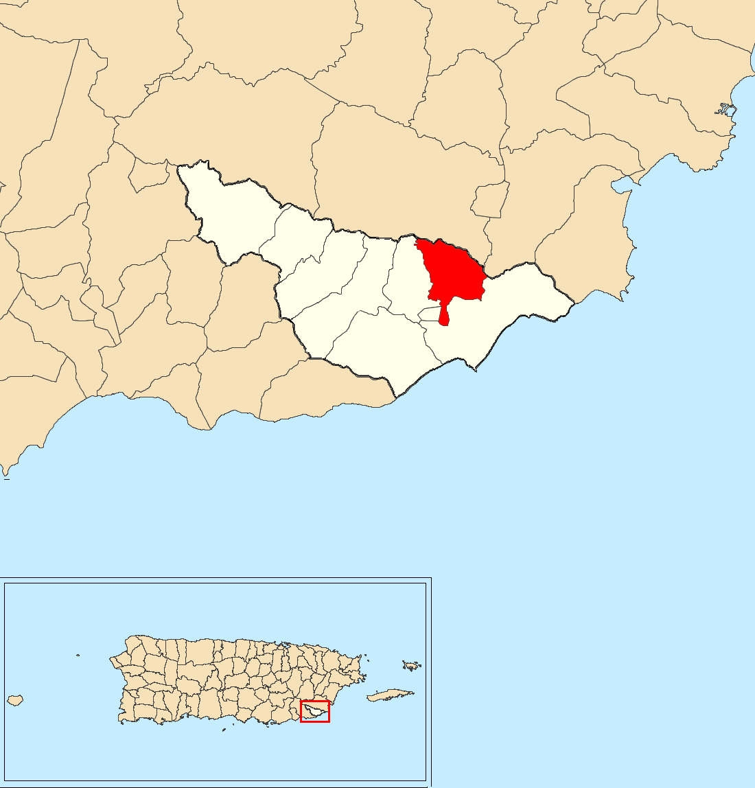 Quebrada Arenas, Maunabo, Puerto Rico locator map